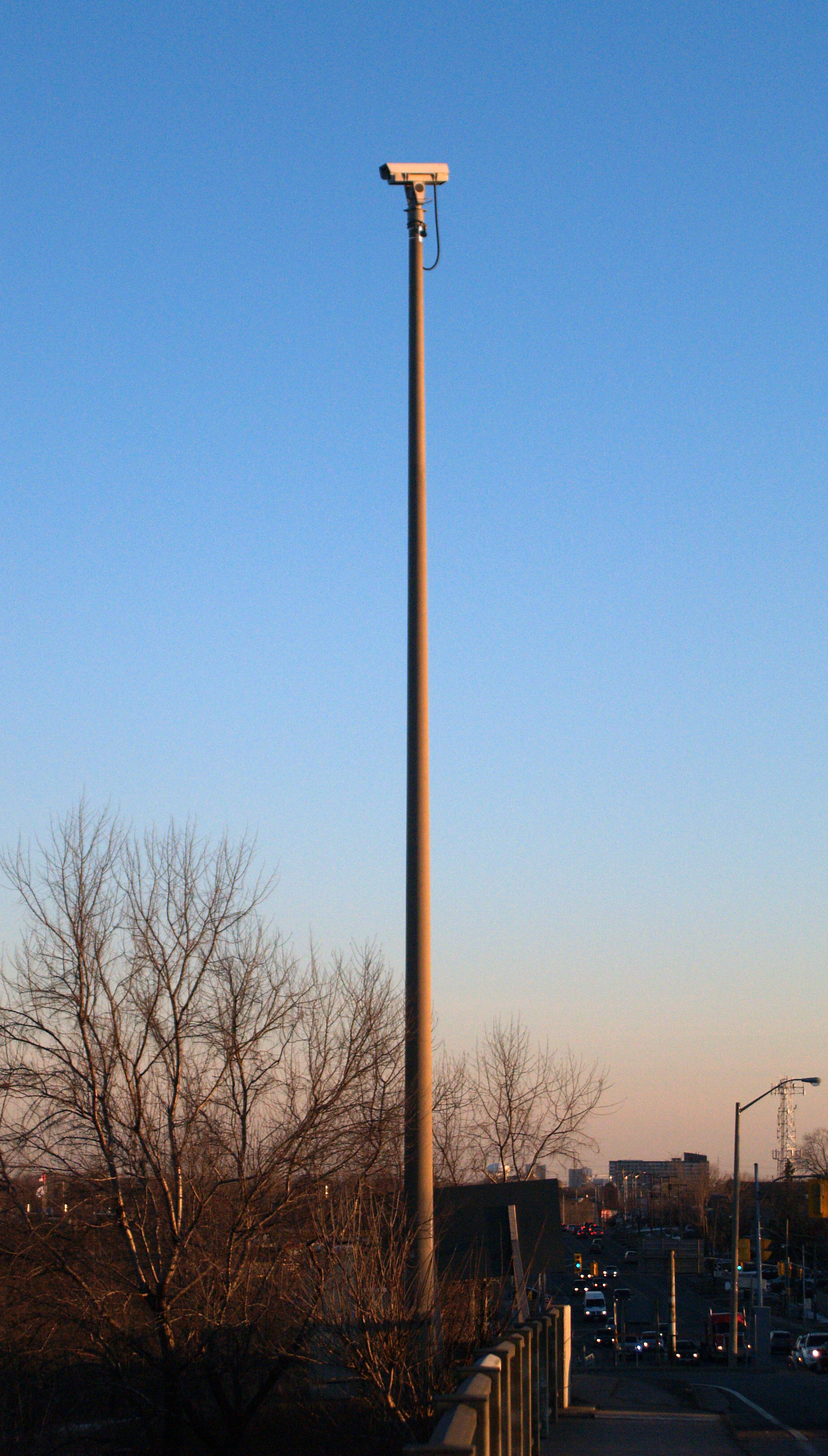 A CCTV camera on the southeast corner of the Warden Avenue overpass of Highway 401. The cameras are mounted on high poles all along the highway, and are used along with vehicle detectors in the pavement to provide traffic information on changeable message signs along the highway.